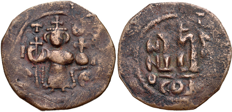 Coin of the Rashidun. Pseudo-Byzantine types. Circa AH 11-55 / AD 632-675. Æ Fals (25mm, 3.73 g, 6h). “ΛITOIЄ” Type. Struck circa 647-670. Imperial Byzantine figure (Constans II) standing facing, holding cross-tipped staff and globus cruciger; T/I/Λ to left; O above globus cruciger, Є below / Large m; cross above, A below; N/N/O to left, Λ/Φ/A to right; CON in exergue.